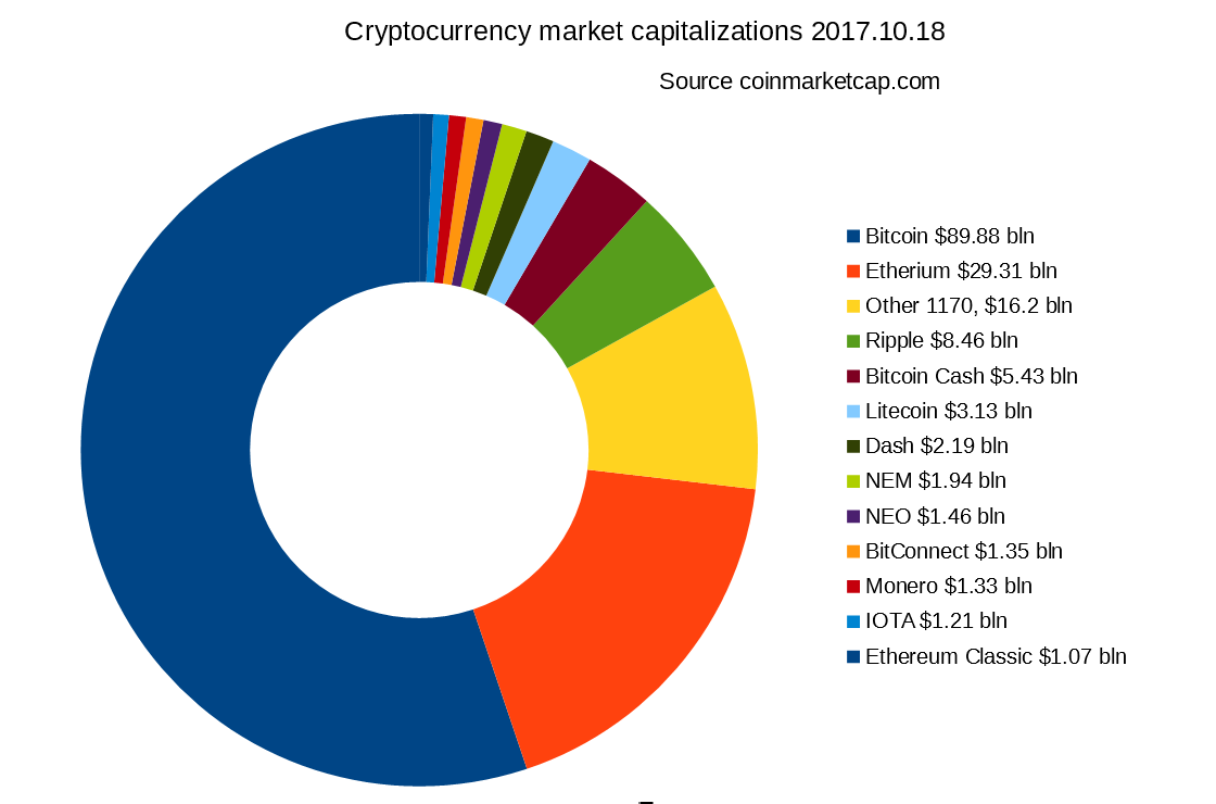 Cryptocurrency market capitalizations in 2017